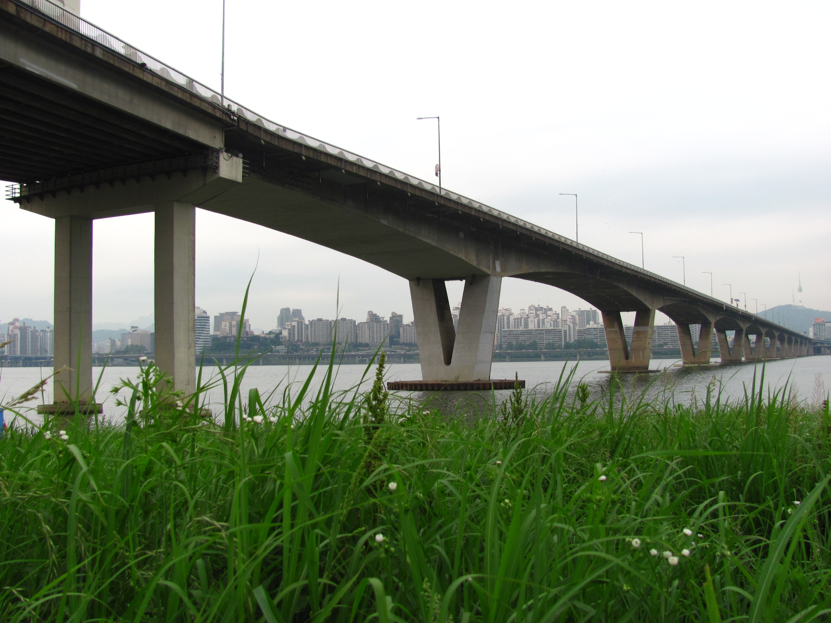 Wonhyo Bridge